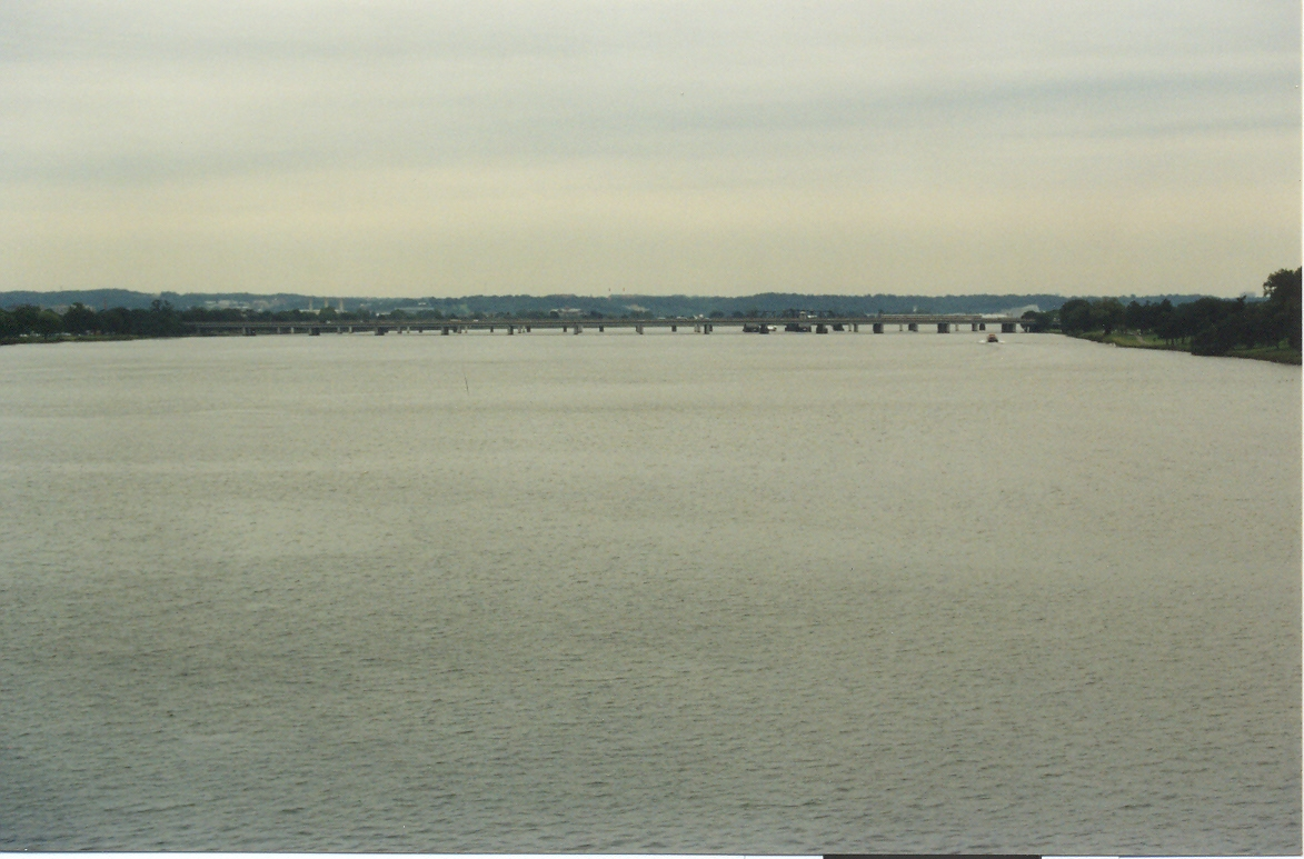 Potomac River near Arlington, va. Photo by Jan Kronsell, 2000